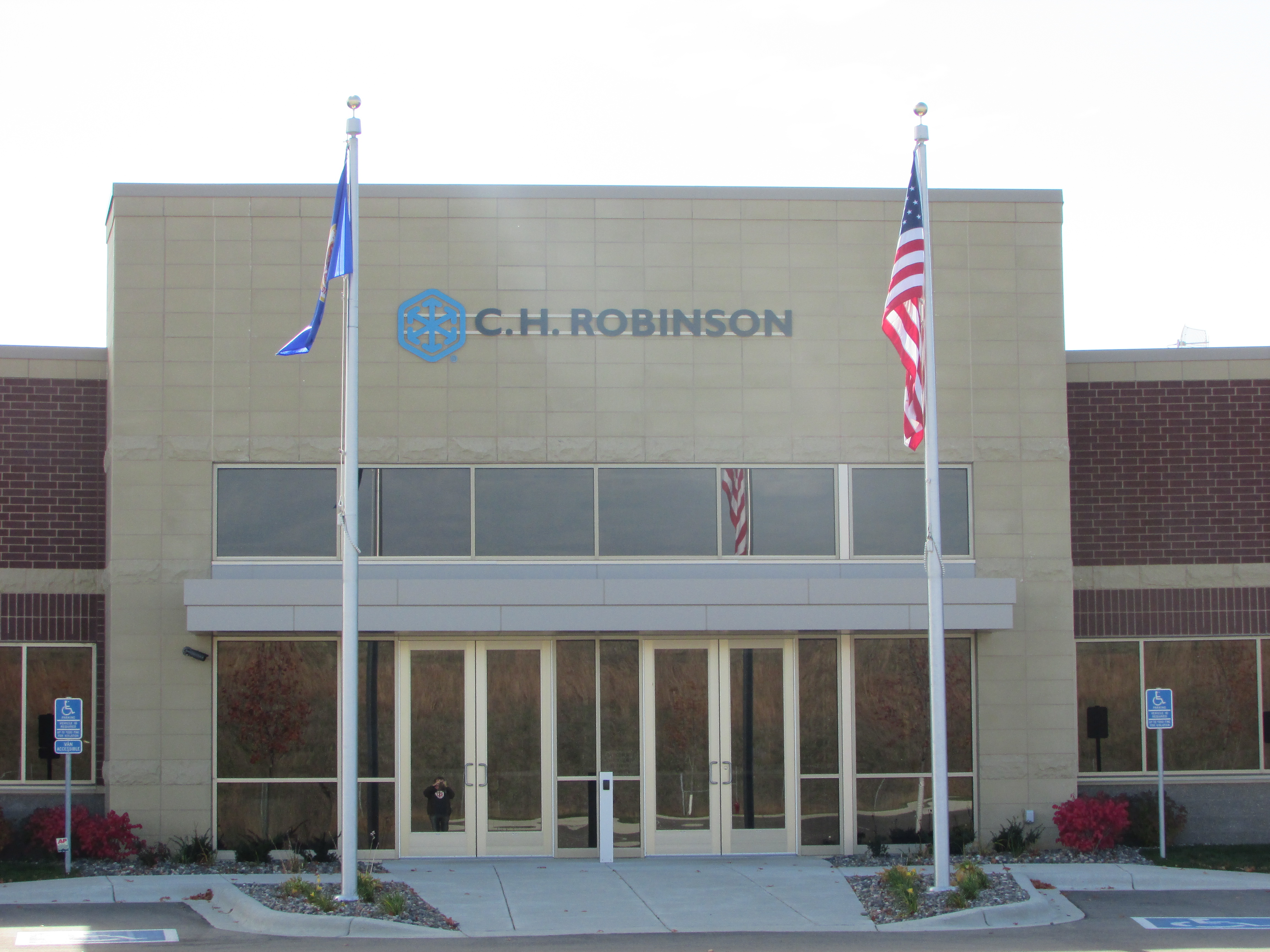 Entrance to IT building of C.H. Robinson in Eden Prairie.